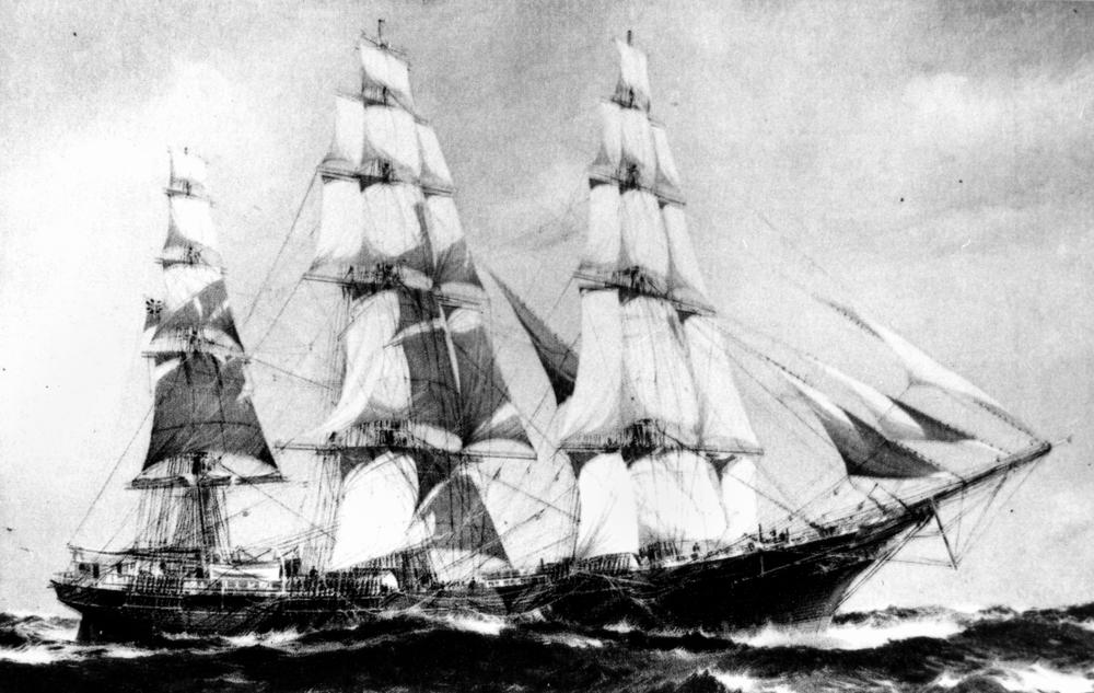 James Baines (ship) Painted by J. Spurling.